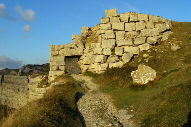 Stone bridge above Clay Ope. This bridge of large stone blocks is across the modern-day coast path. It was once the route of a tramway that transported stone from the quarries to Priory Corner. Overburden and waste was tipped off the cliff from the top of the bridge. There are more of these further north along the path, although they no only have the supports and not the bridge.